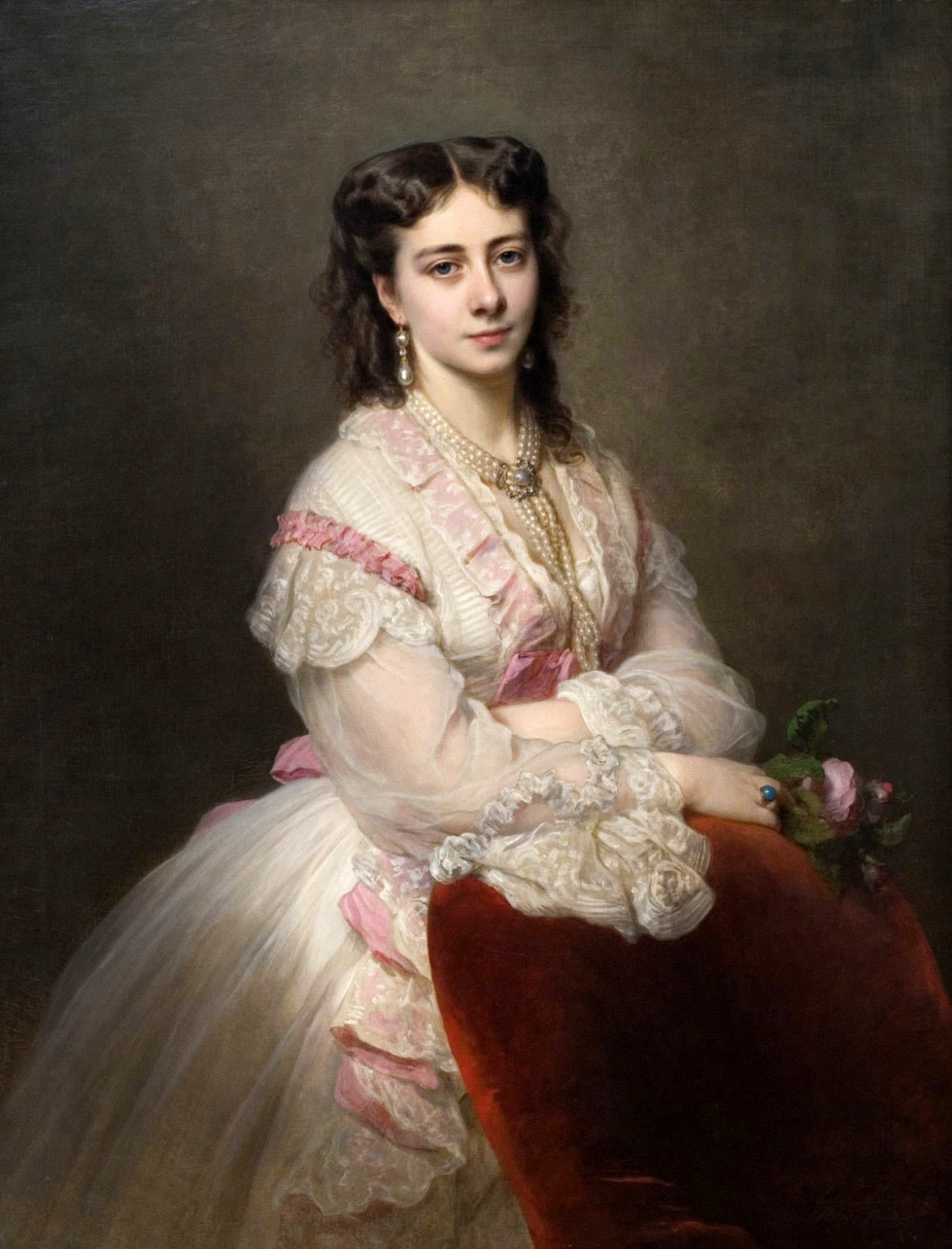 Portrait of Countess Marie Branicka de Bialacerkiew [née Princess Sapieha]